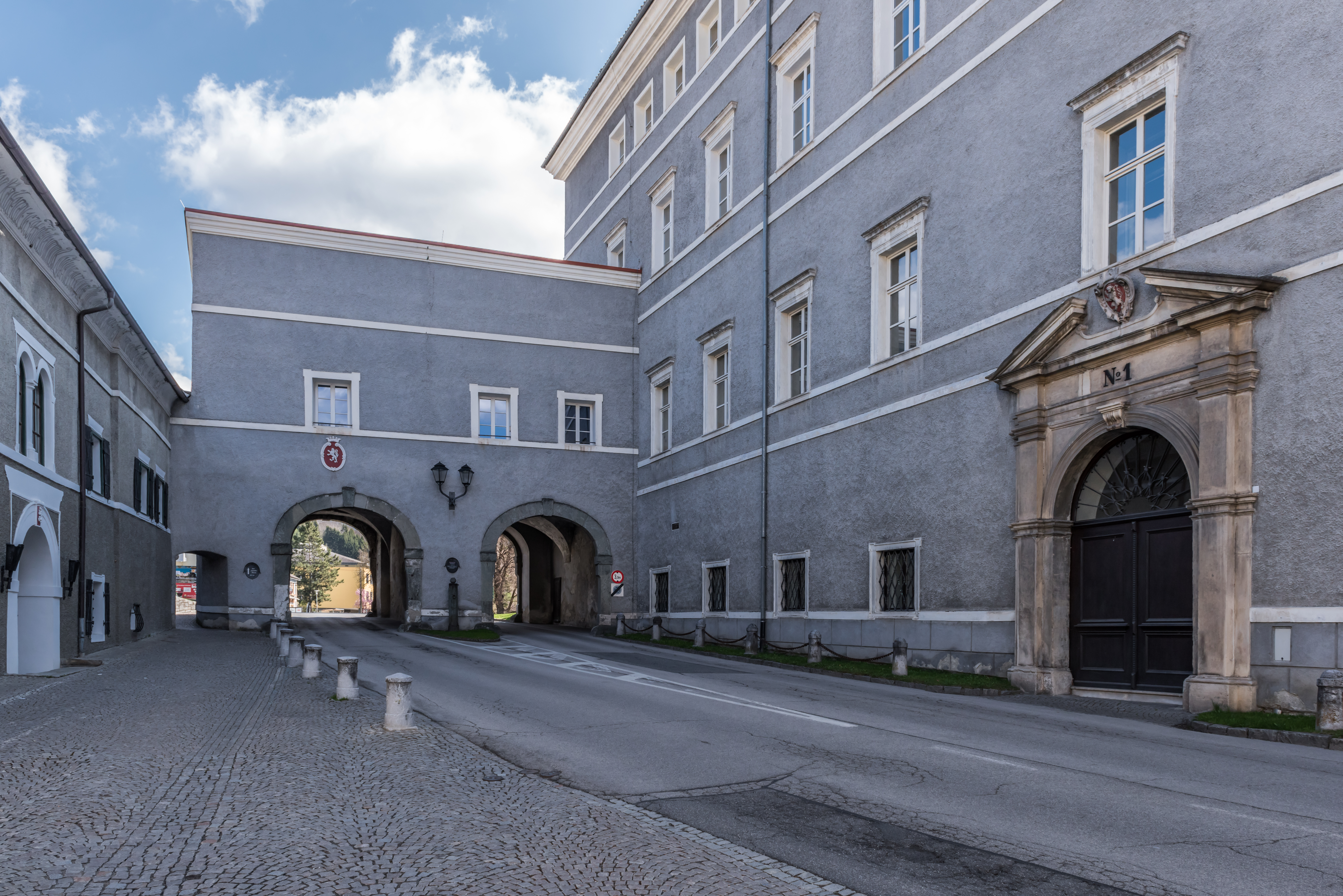 Northwestern view of the upper city gate and Lodron Castle on Hauptplatz #1, municipality Gmünd, district Spittal an der Drau, Carinthia, Austria, European Union